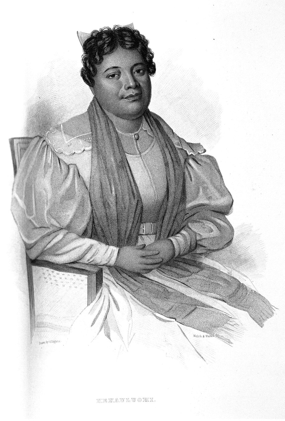 Hawaiian High Cheifess Kekāuluohi (1794–1845) was Queen Consort to the first two rulers of the Kingdom of Hawaii, Kamehameha I and II. She was mother of King William Charles Lunalilo (1834-1874), and Kuhina Nui (co-regent) with King Kamehameha III under the name Ka'ahumanu III. She signed the first written constitution of the Kingdom in 1840.